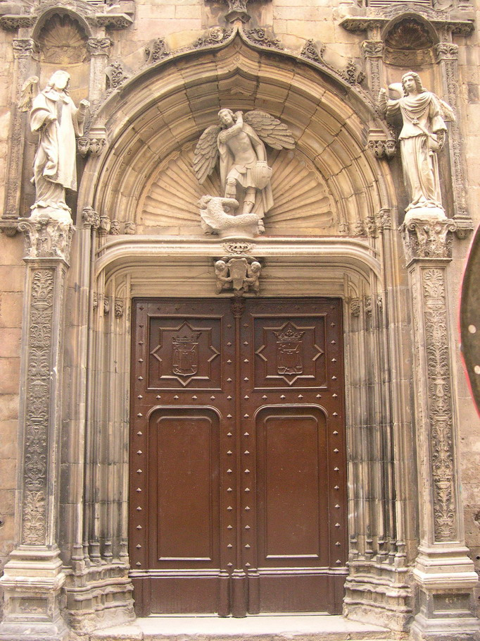 Side door of basílica de la Mercè, Barcelona